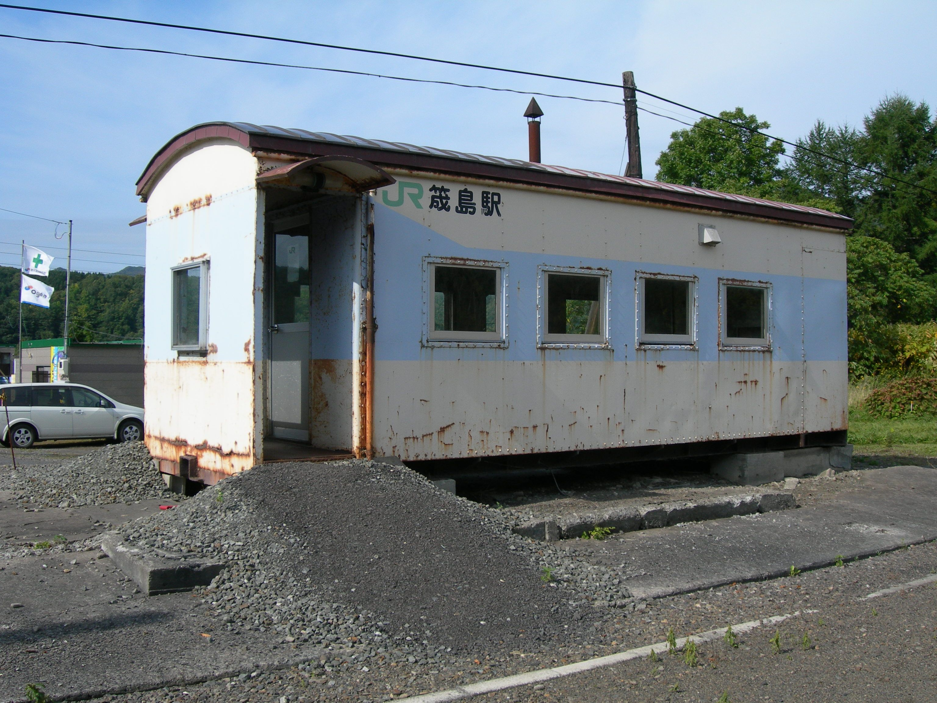 The waiting room at Osashima Station on the Soya Main Line in Hokkaido, Japan